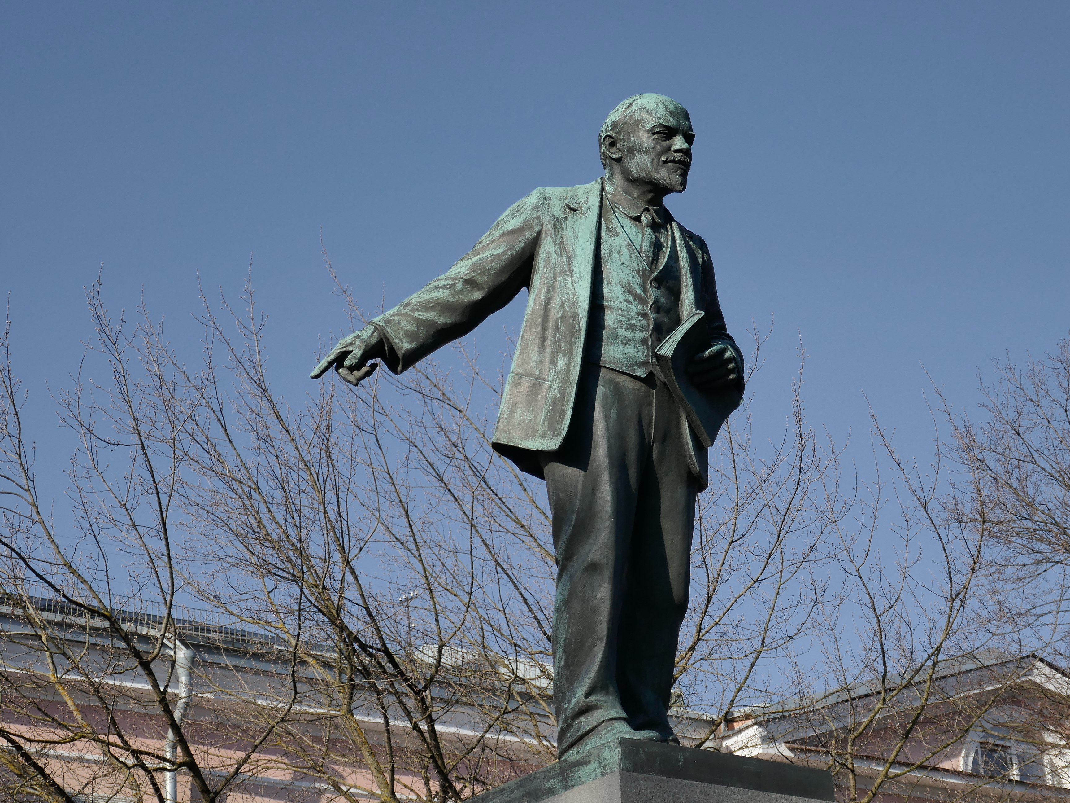 It 's all their fault! To shoot! This very old monument I accidentally saw in St. Petersburg